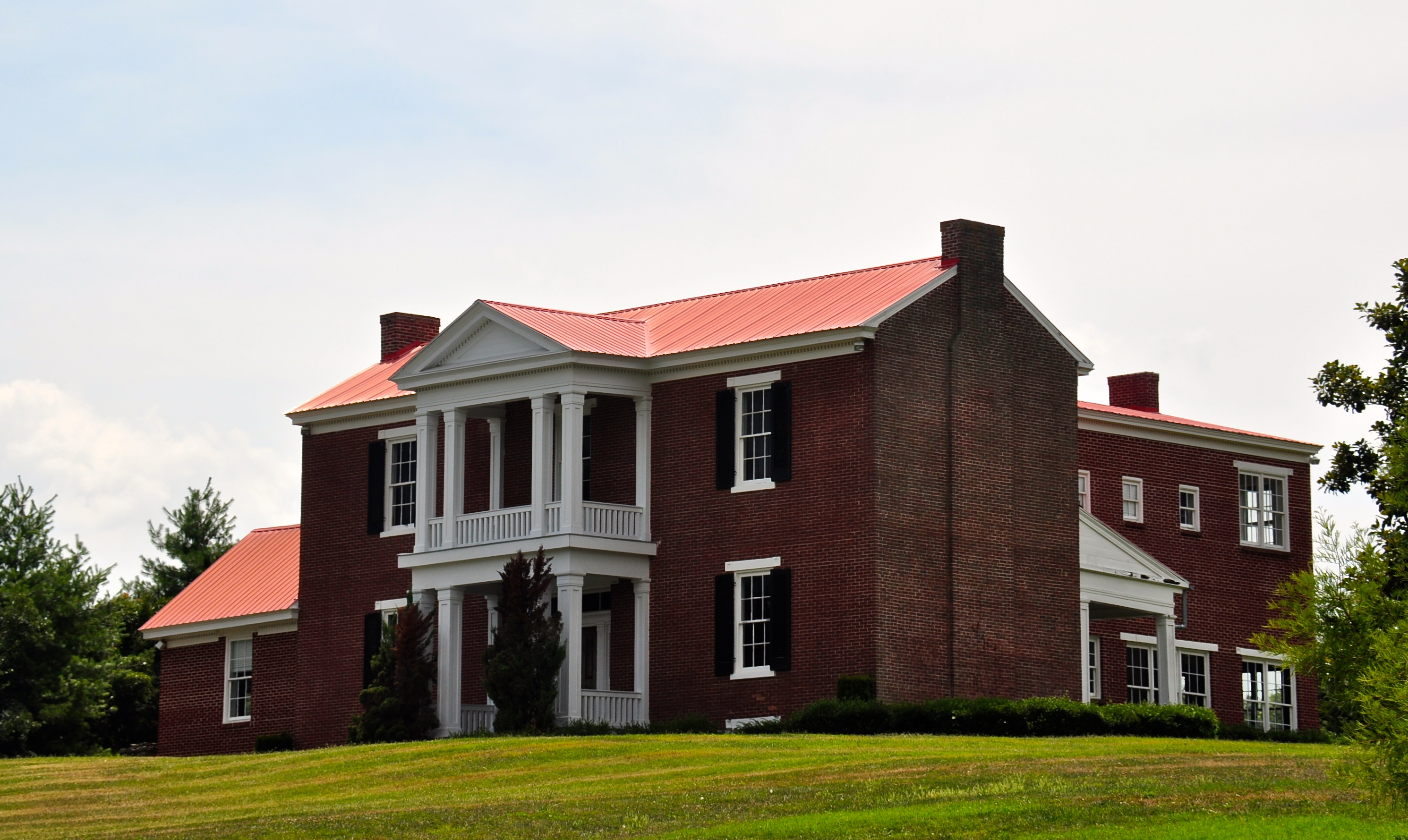 John Seward House, Liberty Pike, 0.75 miles (1.21 km) west of Wilson Pike Franklin